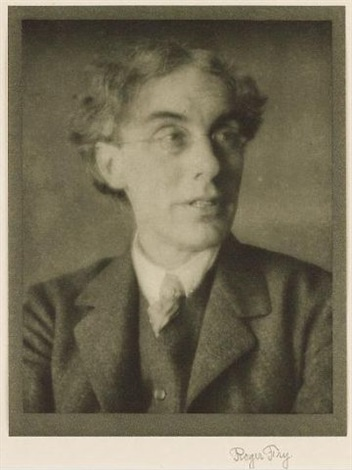 Portrait of Roger Fry in 1913, by Alvin Langdon Coburn